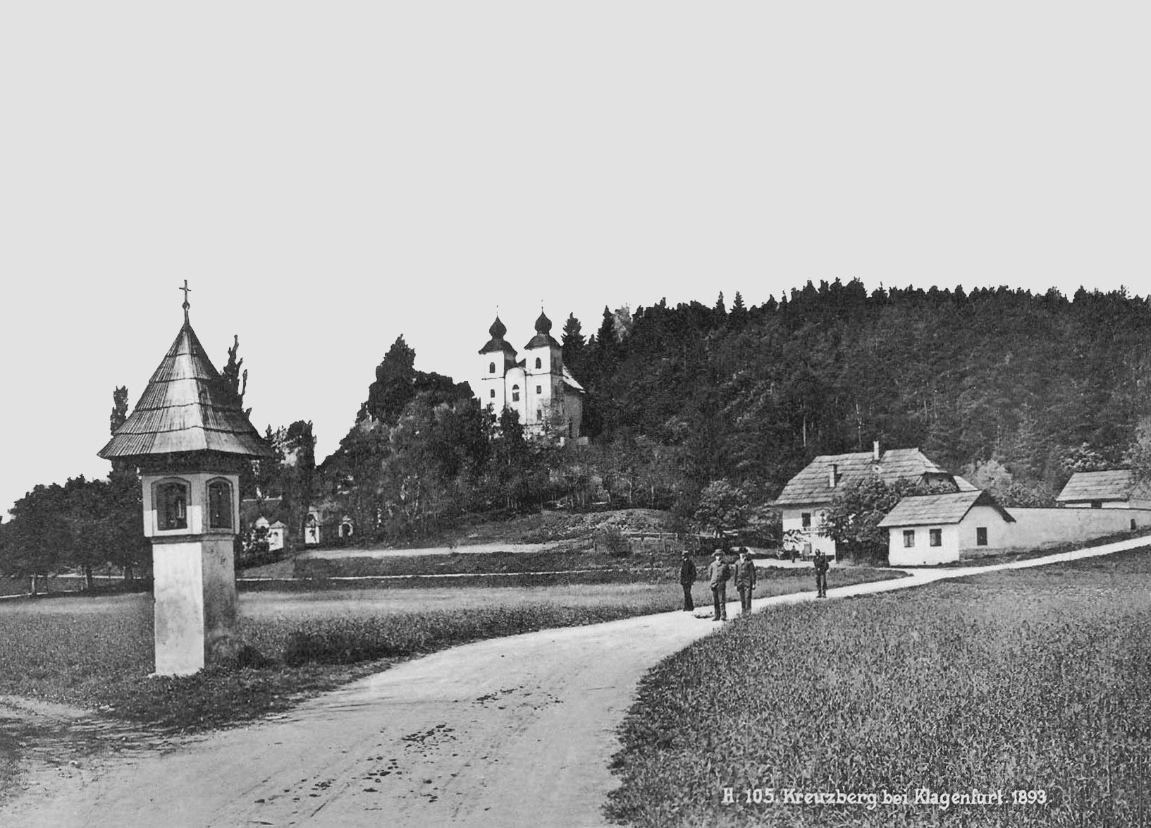 Historical photograph of the Kreuzbergl, showing a wayside shrine in the foreground, the Kreuzbergl church in the background and the restaurant "Einsiedler" on the right side, situated in the 8th district "Villacher Vorstadt" of the capital Klagenfurt, Carinthia, Austria